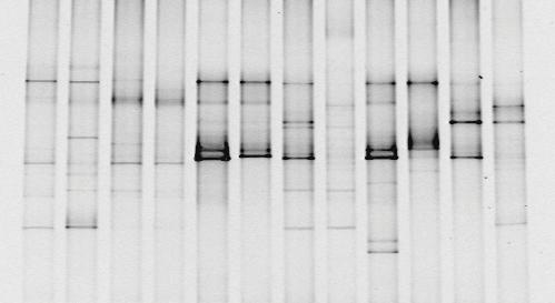 Negative image of an ethidium bromide stained DGGE gel loaded with 16S rRNA coding gene fragments